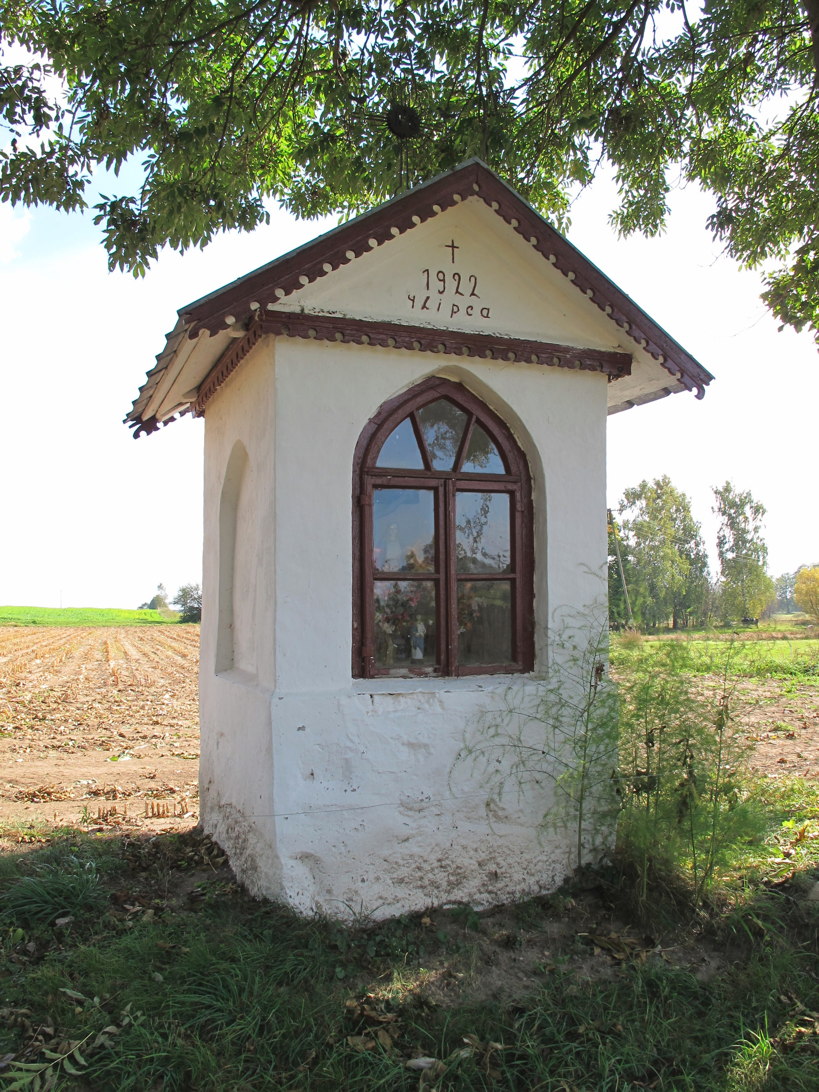 Wayside shrine from year 1922 in Przesławka, gmina Korycin, podlaskie, Poland